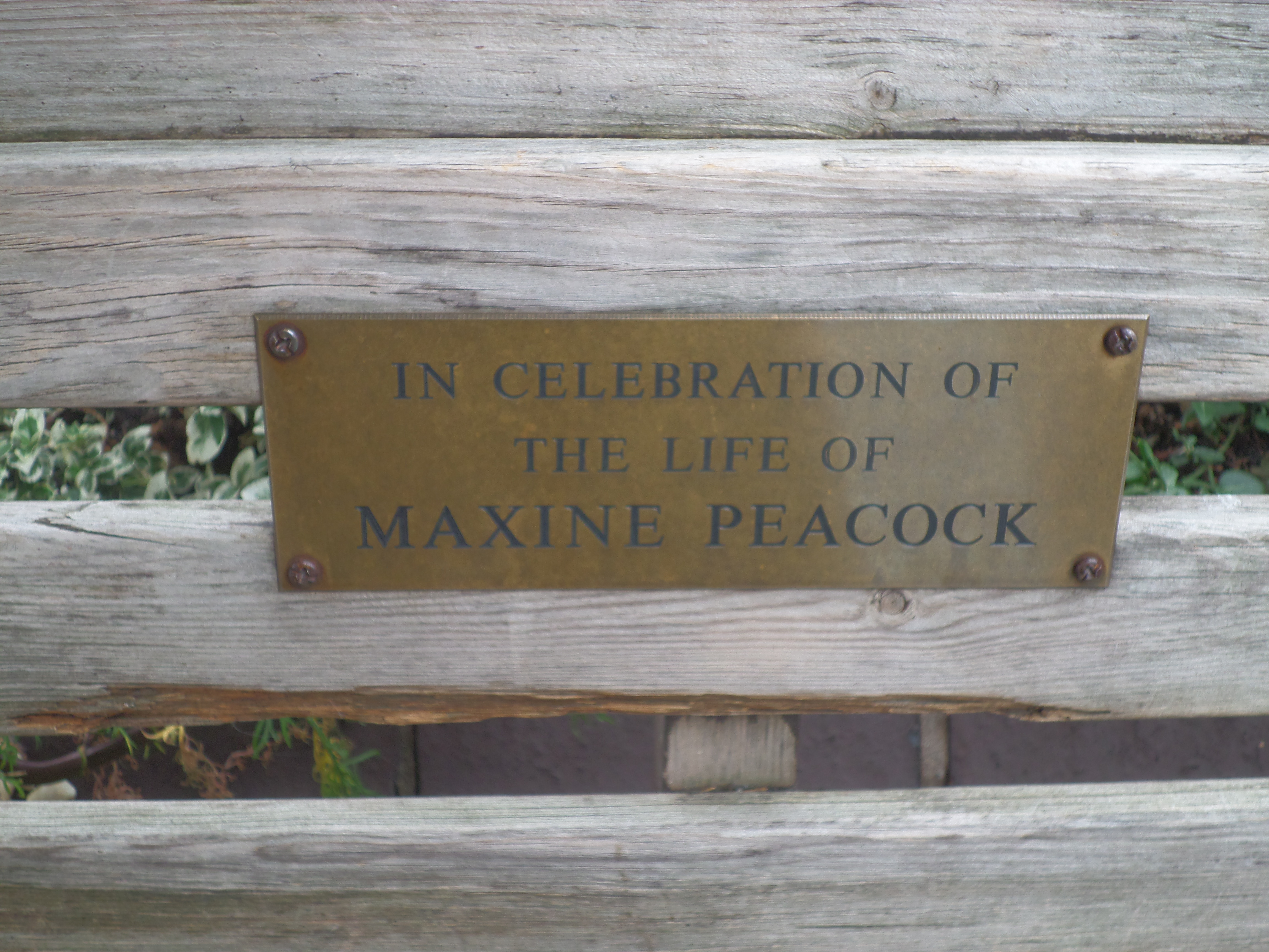 An image of a memorial plaque which is dedicated to Maxine Peacock, a fictional character, from the fictional soap opera, Coronation Street. The image was taken from the Coronation Street Tour.